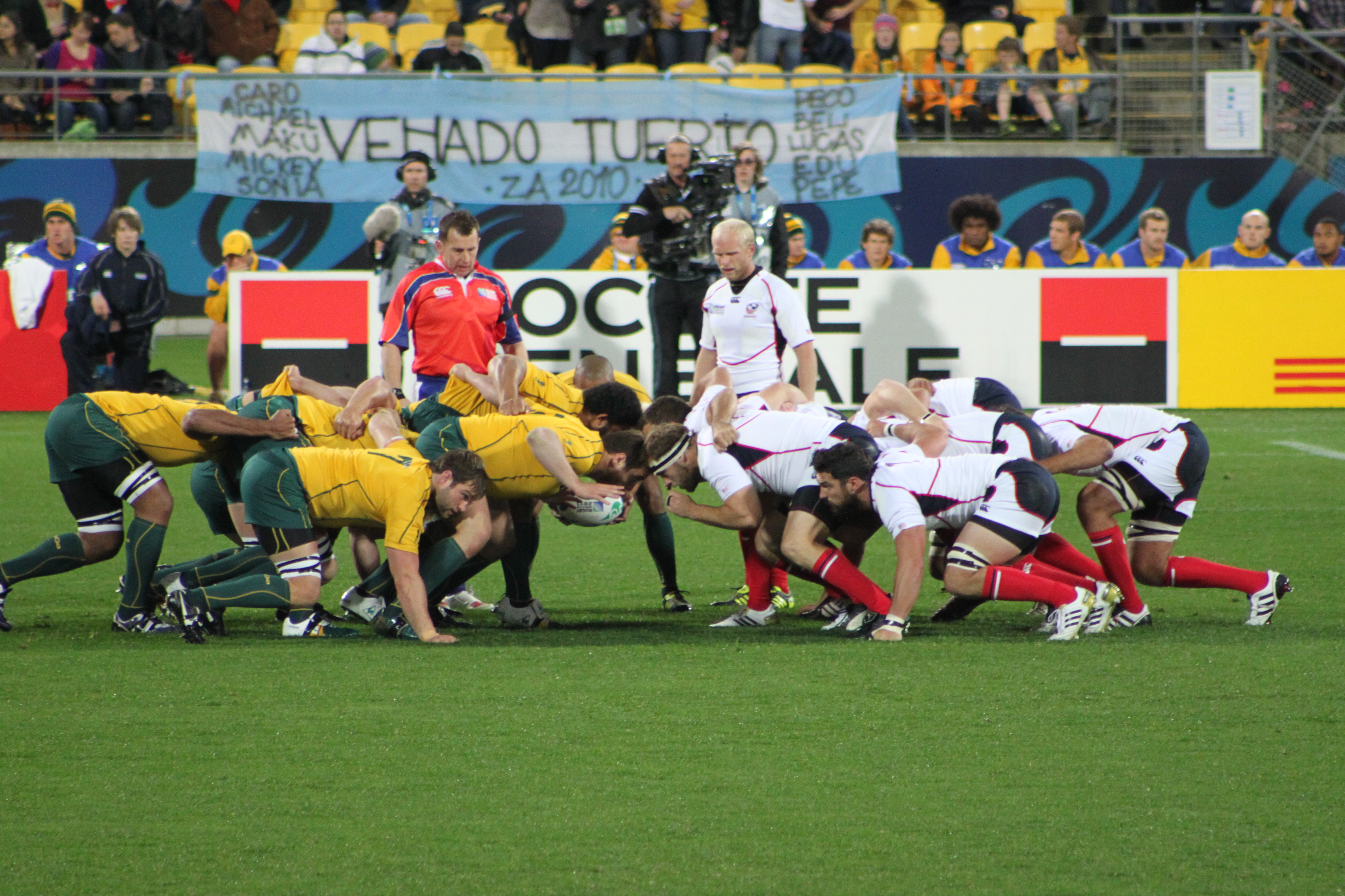 Match between Australia and USA during 2011 Rugby World Cup in New Zealand.